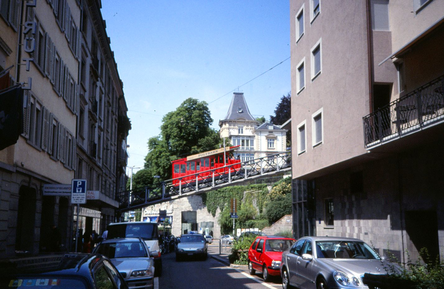 The Polybahn in Zurich. Switzerland. June 15, 2006.